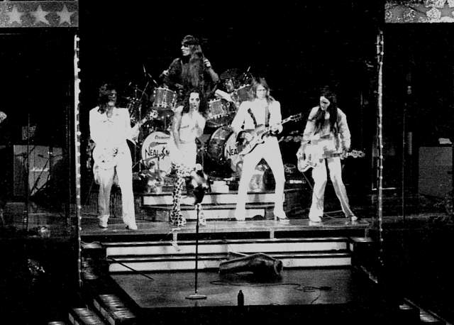 Alice Cooper live at the Carolina Coliseum in Columbia, South Carolina in 1973.